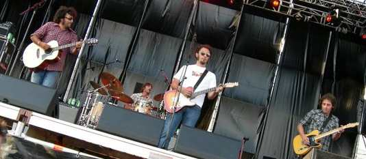 Grupo de Expertos Solynieve playing at Sonorama 2008 festival.